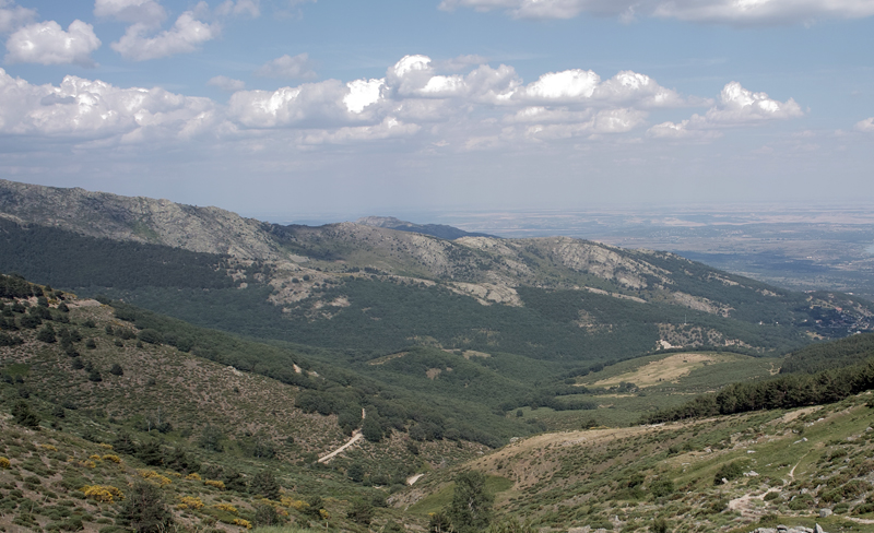 La Morcuera pass in Sierra de Guadarrama (Comunidad de Madrid, Spain)